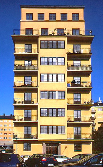 Residence of Sven Hedin in Stockholm, Norr Maelarstrand 66. Built 1930-31, Architect T Kellgren. Sven Hedin lived in this residence in the years 1935 - 1952.